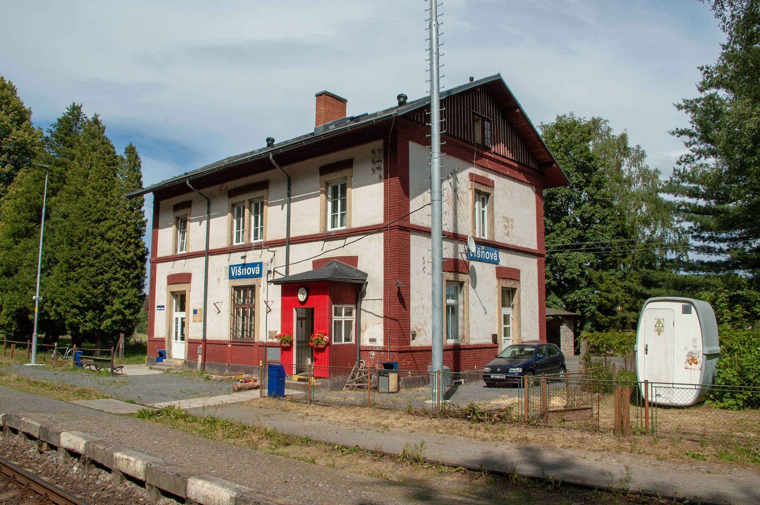 This photograph was created as a part of Wikiexpedition Lower Silesia, a project supported by Wikimedia Poland grant.